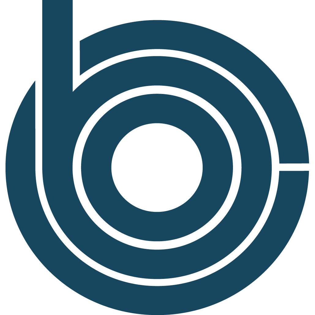 Logo for the Congressional Budget Office.